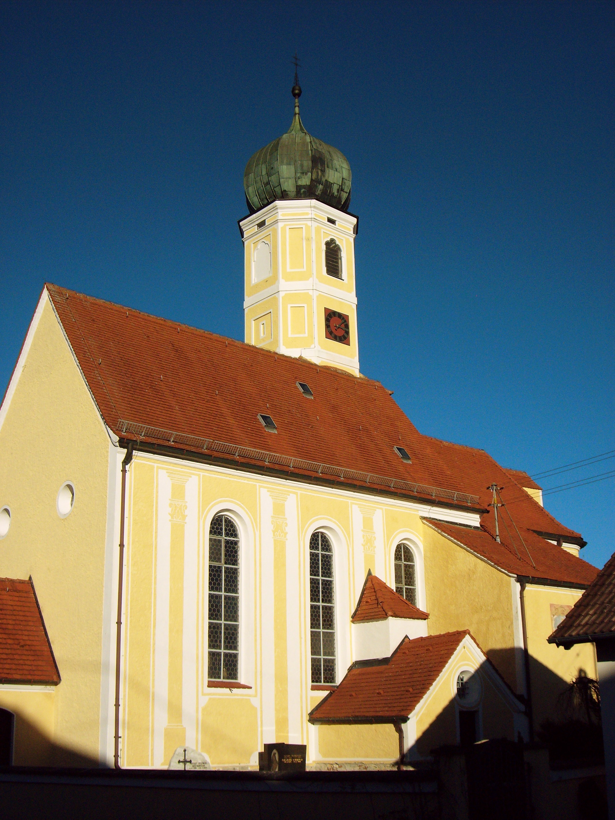 Church St. Margareth in Gutenberg, City of Oberostendorf, Bavaria